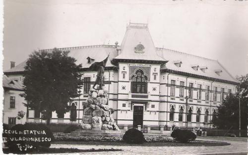 Statue of Tudor Vladimirescu by George Julian Zolnay, located in front of the Tudor Vladimirescu Highschool building in Târgu Jiu.